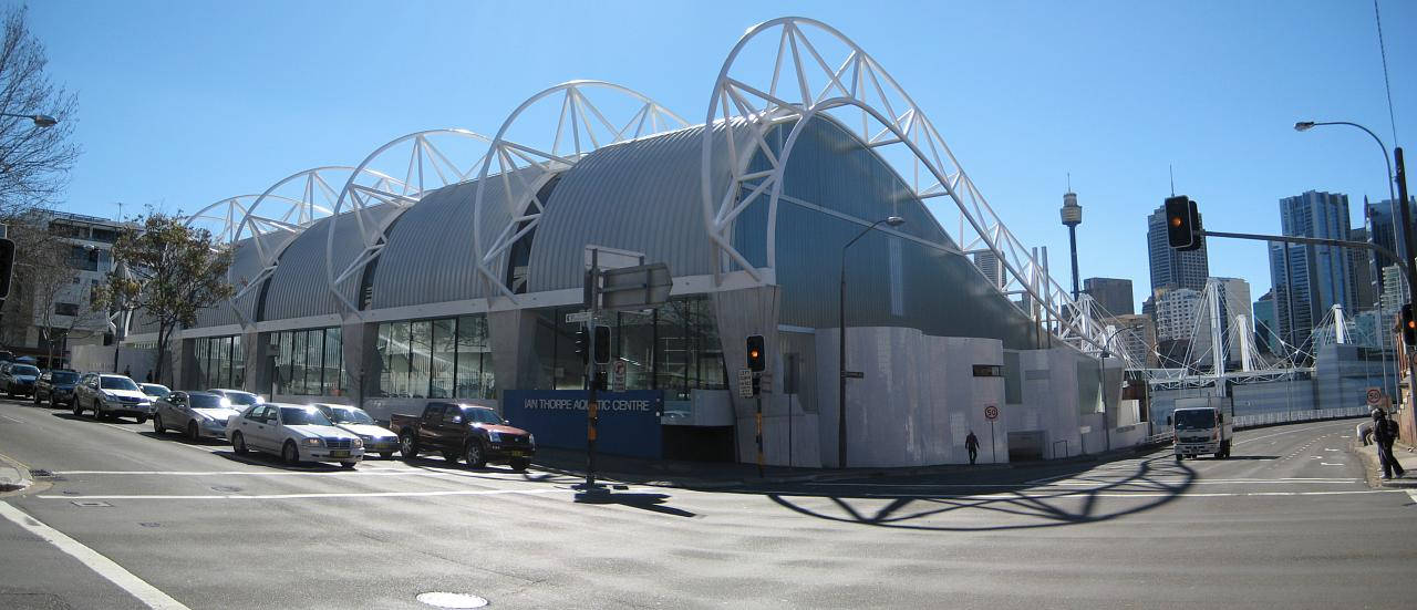 Thorpe's Aquatic Center in Australia